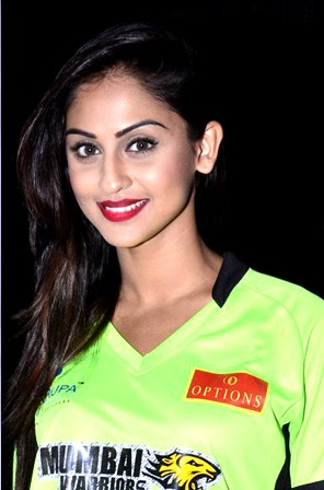 at Press conference of 'Box Cricket League'